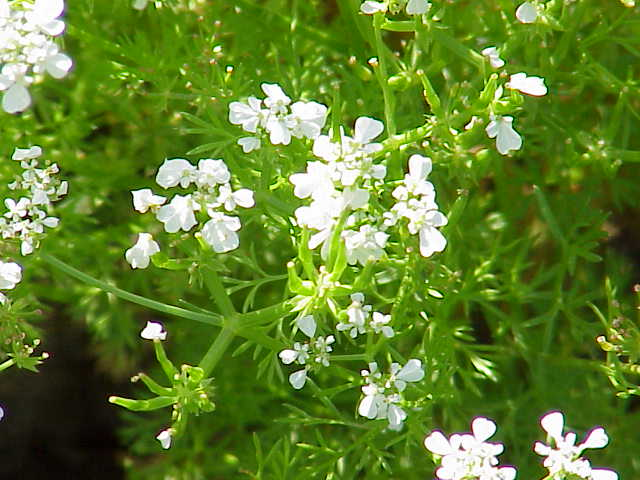 Species: Anthriscus cerefolium Family: Apiaceae Image No. 1